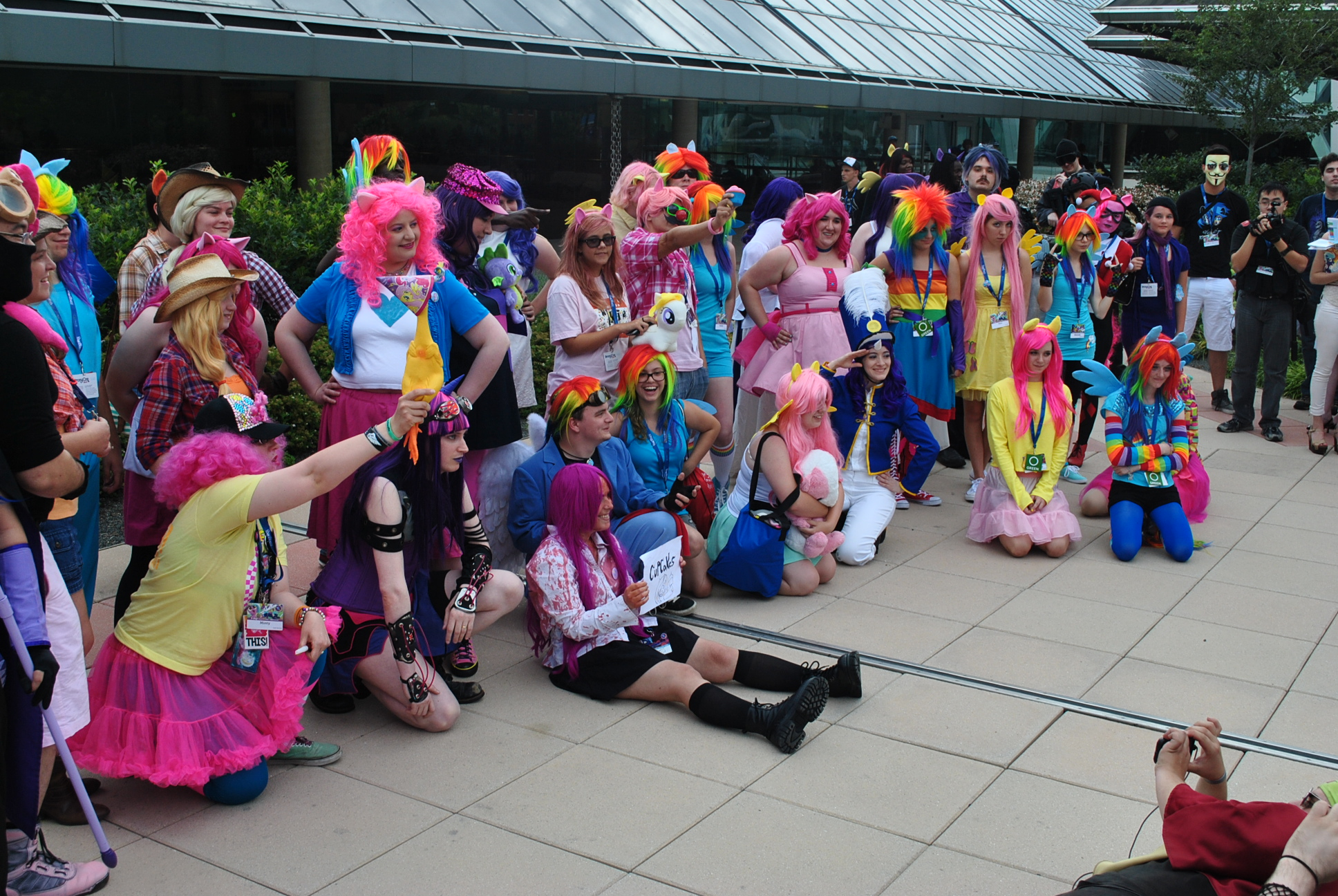 Several cosplayers posing for a 2014 BronyCon cosplay photoshoot (August 1-3, 2014)